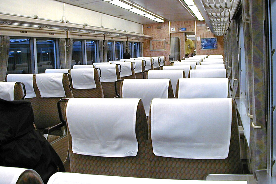 Interior of a JR East 185 series EMU standard-class car with original "flip-over" seats before refurbishment